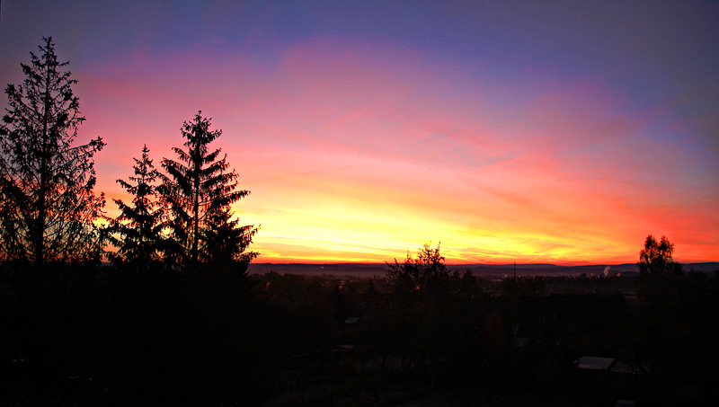 This image shows a sunrise in Zwickau (Saxony, Germany).